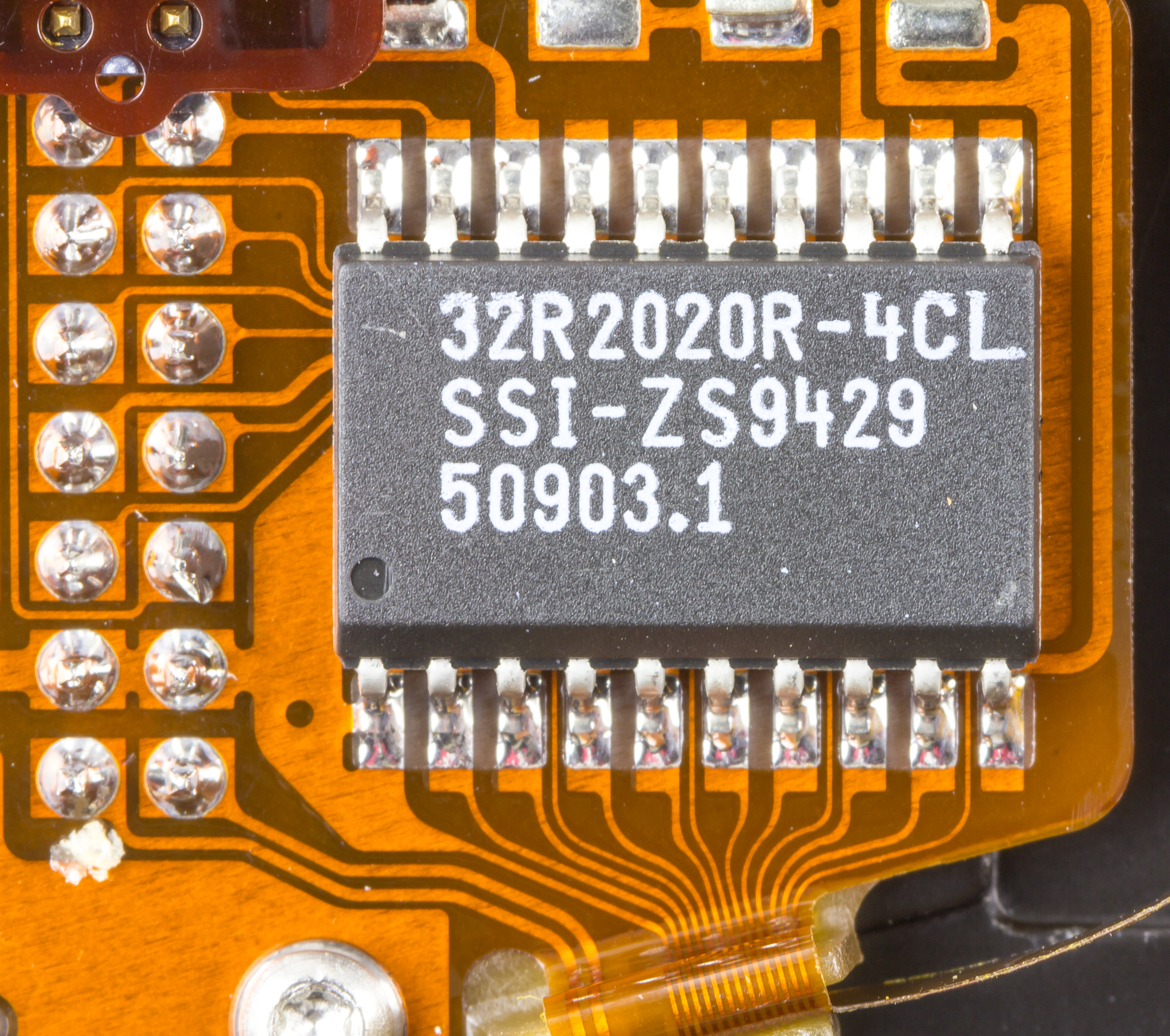 Seagate ST9300AG - Silicon Systems SSI 32R2020R-4CL (5V, 2, 4, 6, 10-Channel Thin-Film Read/Write Device) inside the disk case